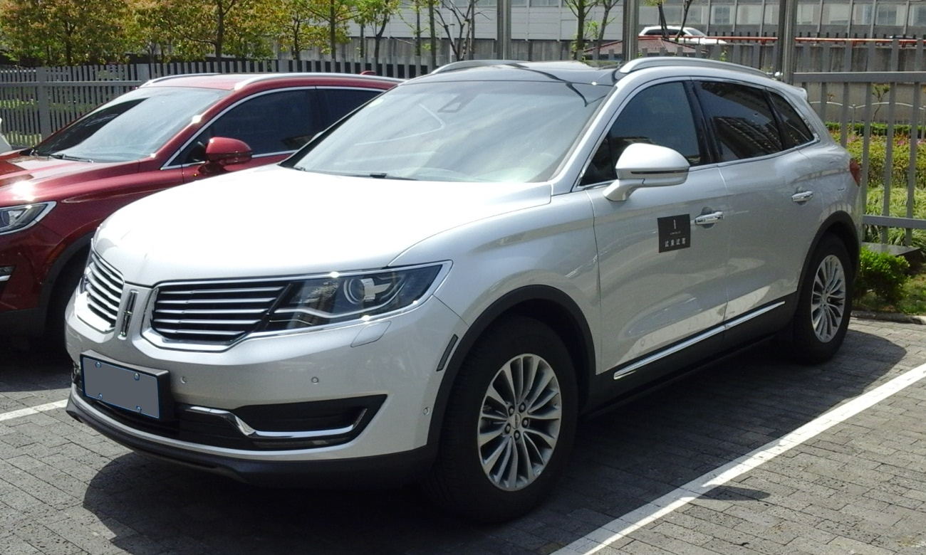 Lincoln MKX II photographed in Shanghai, China.